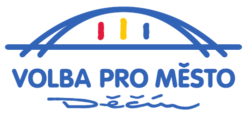 logo of political association "Volba pro město Děčín"